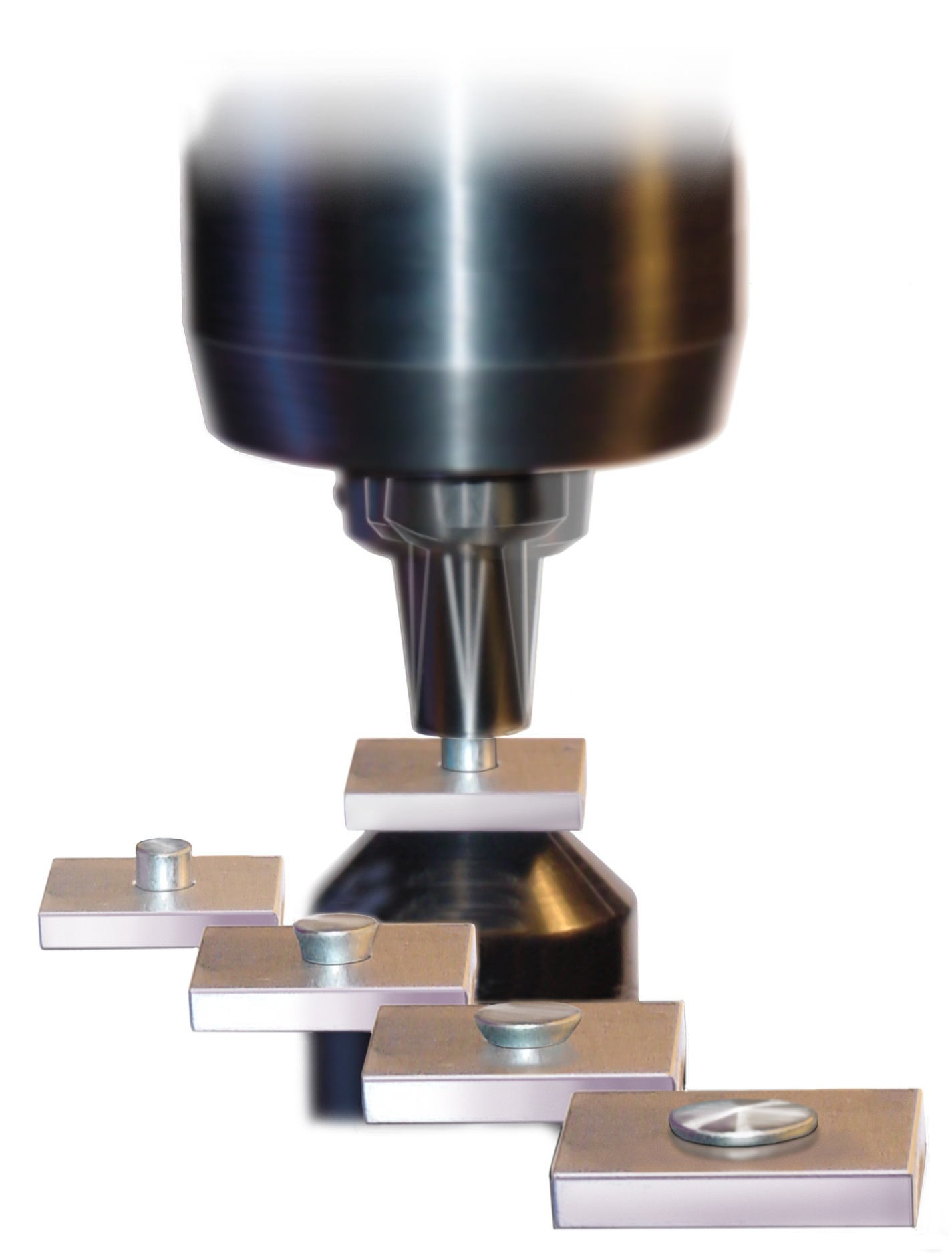 4 step diagram of orbital riveting process